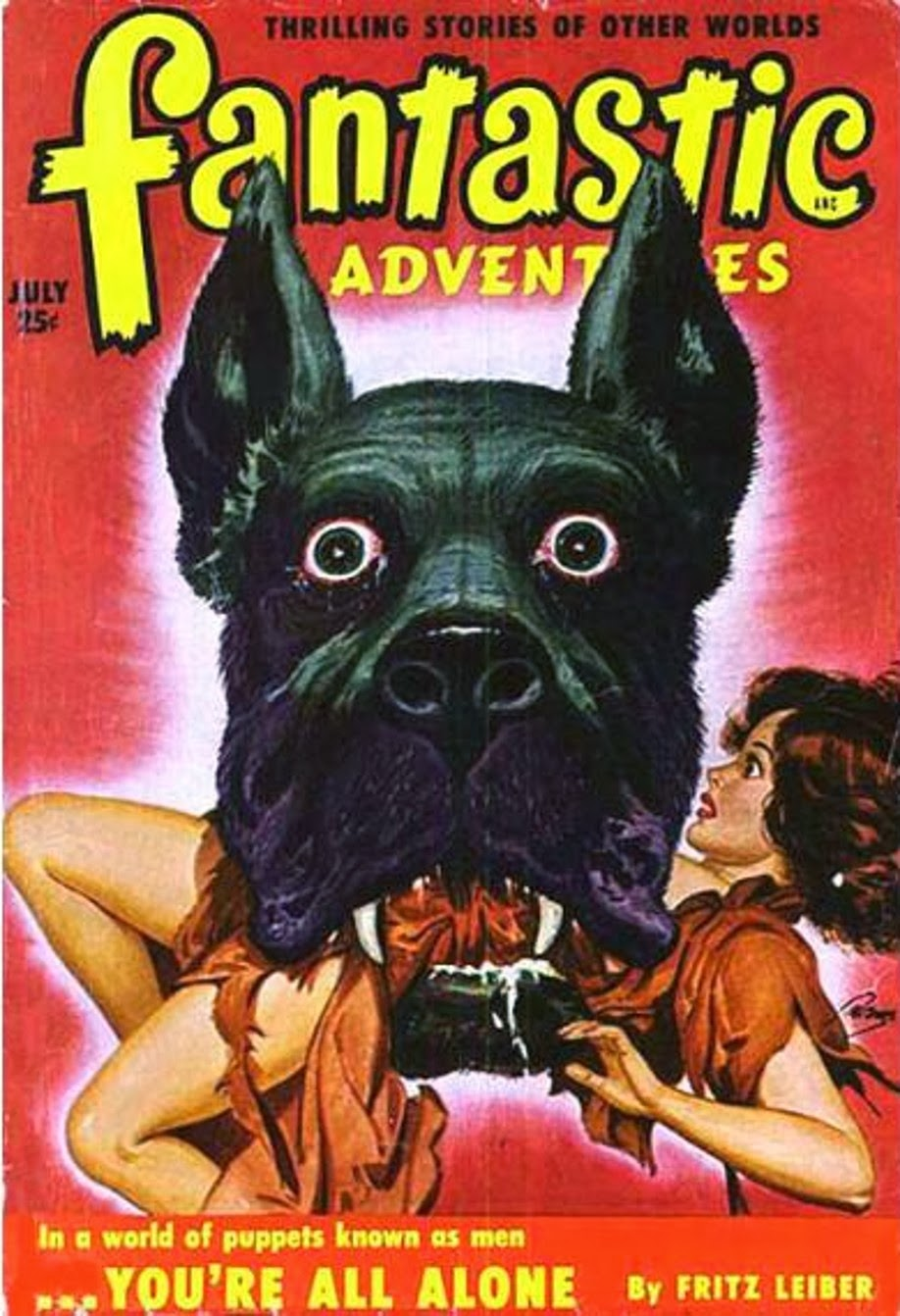 Cover of Fantastic Adventures, July 1950